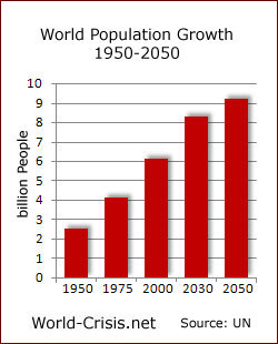 World Population Growth 1950-2050